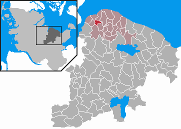 This map shows the area of the Gemeinde (municipality) Lutterbek in the Kreis (district) Plön, Schleswig-Holstein, Germany.